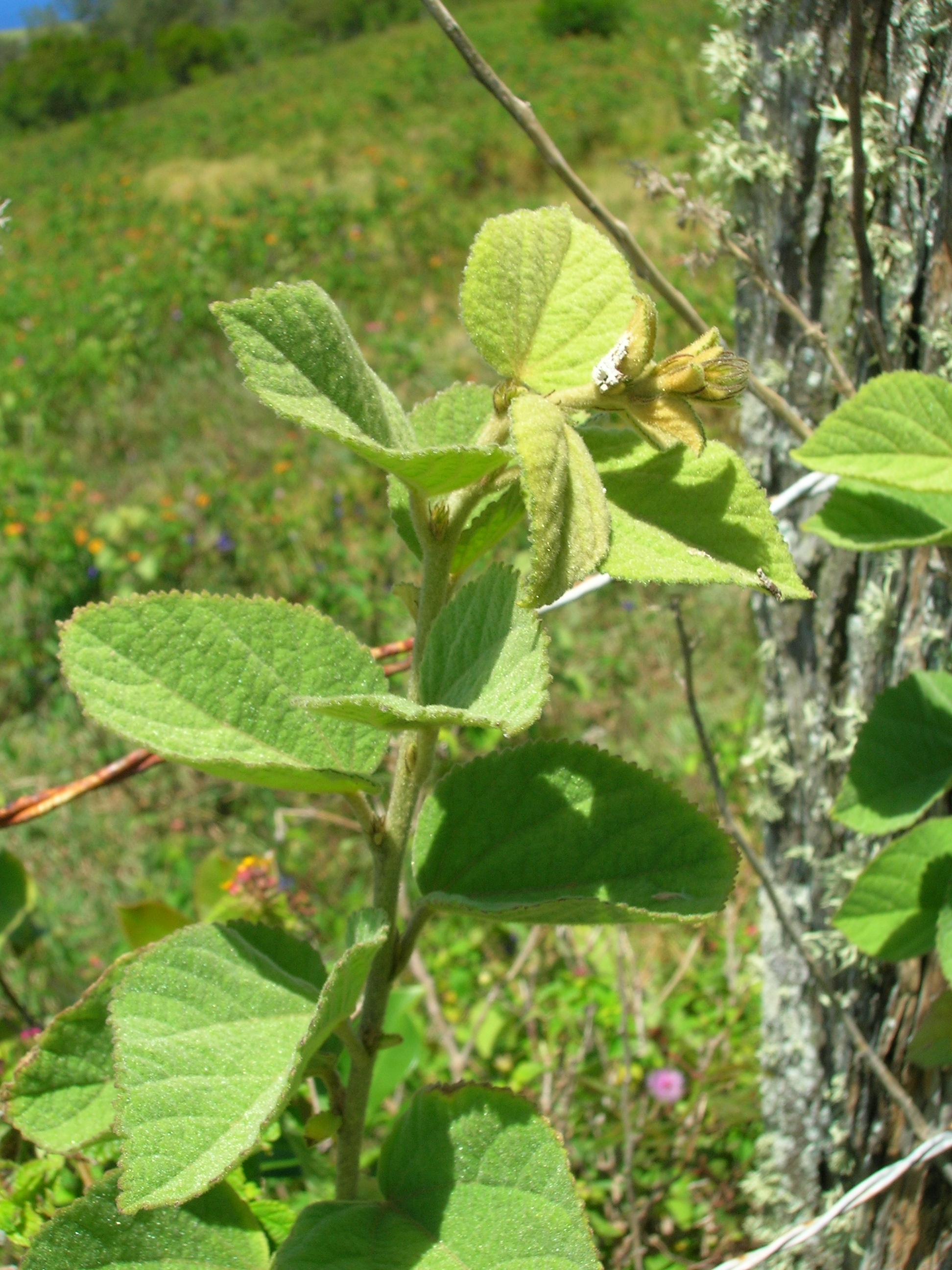 Sidastrum micranthum (habit). Location: Molokai, Puu o Hoku Ranch